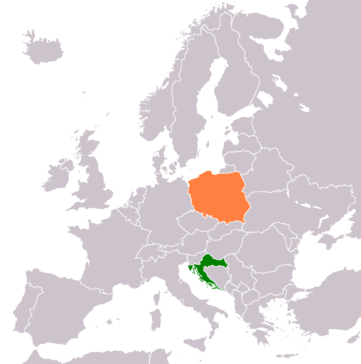 Licence free map I made out of a licence free blank map.